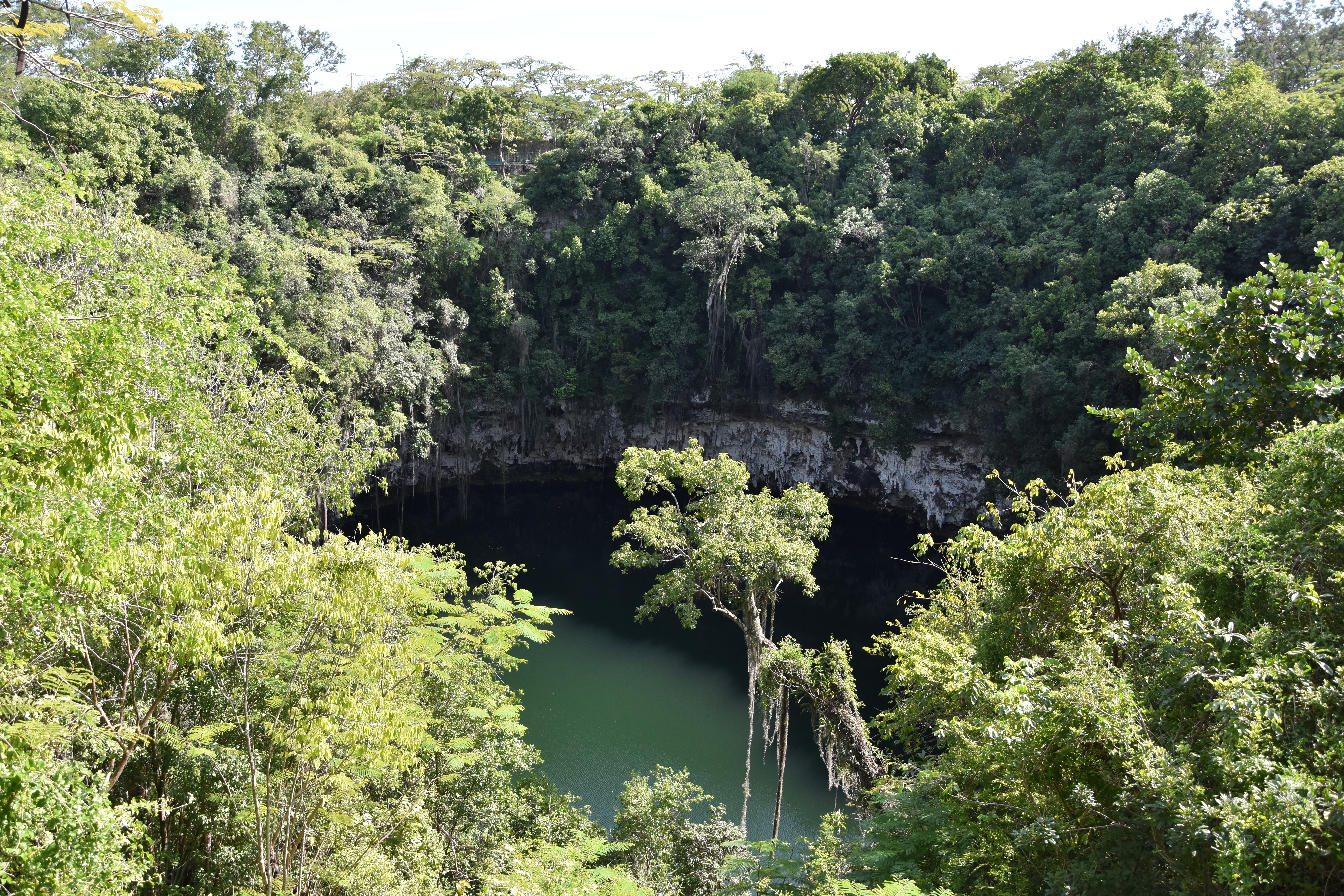 Los Tres Ojos national park in Santo Domingo Este, Dominican Republic.